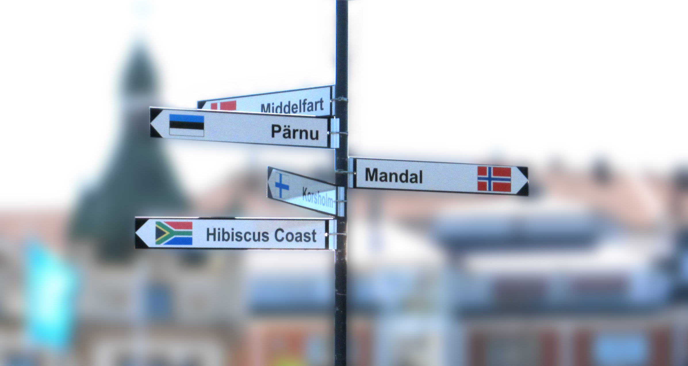 SIgn showing twin towns of city of Oskarshamn, Sweden.